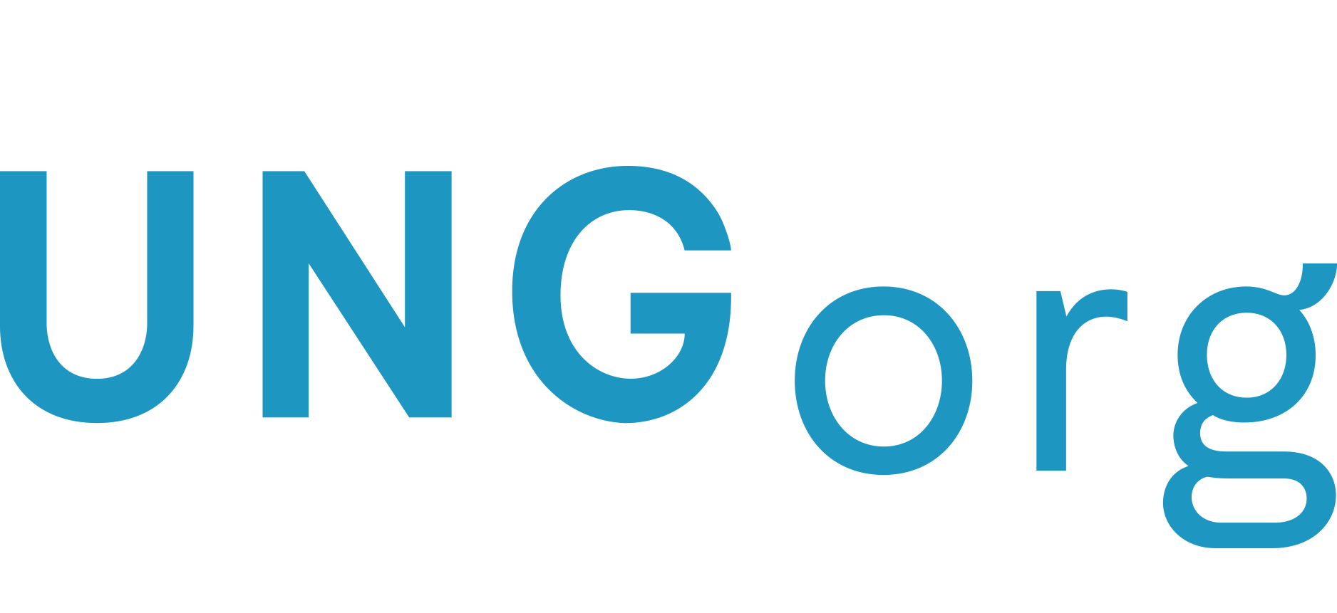 A logo